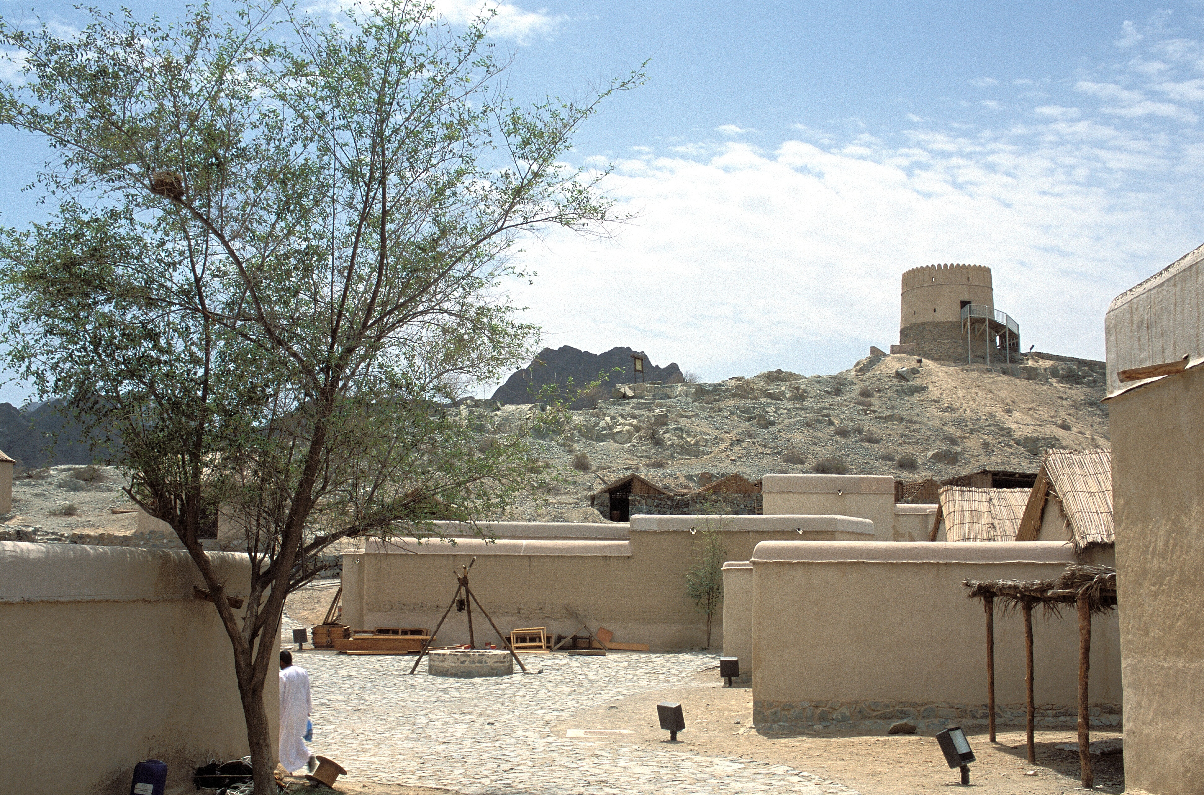 Hatta Heritage Village courtyard